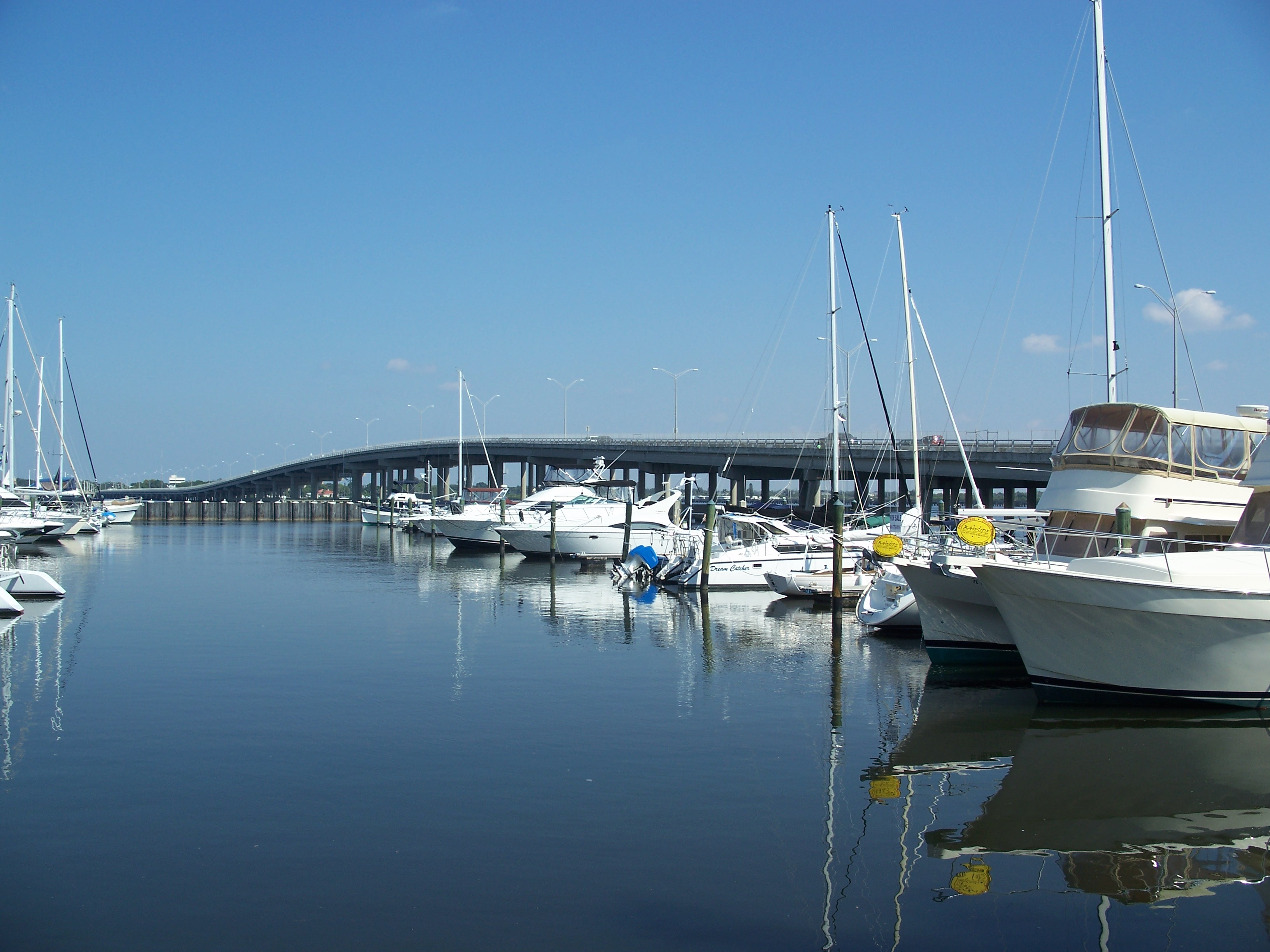 Bradenton, Florida: Green Bridge, which carries US 41 over the Manatee River